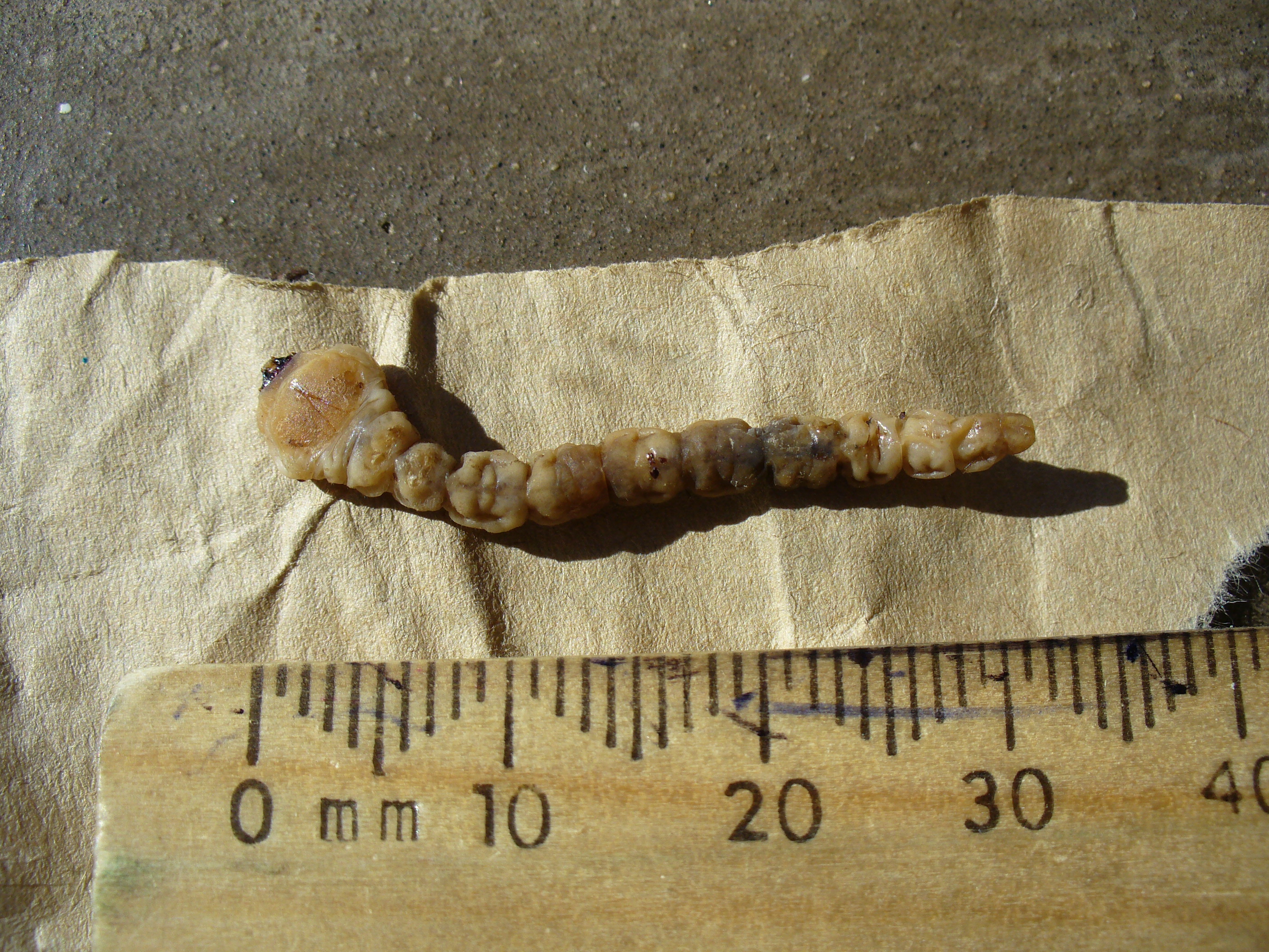 I am the originator of this photo. I hold the copyright. I release it to the public domain. This photo depicts a worm which was extracted from a human foot.